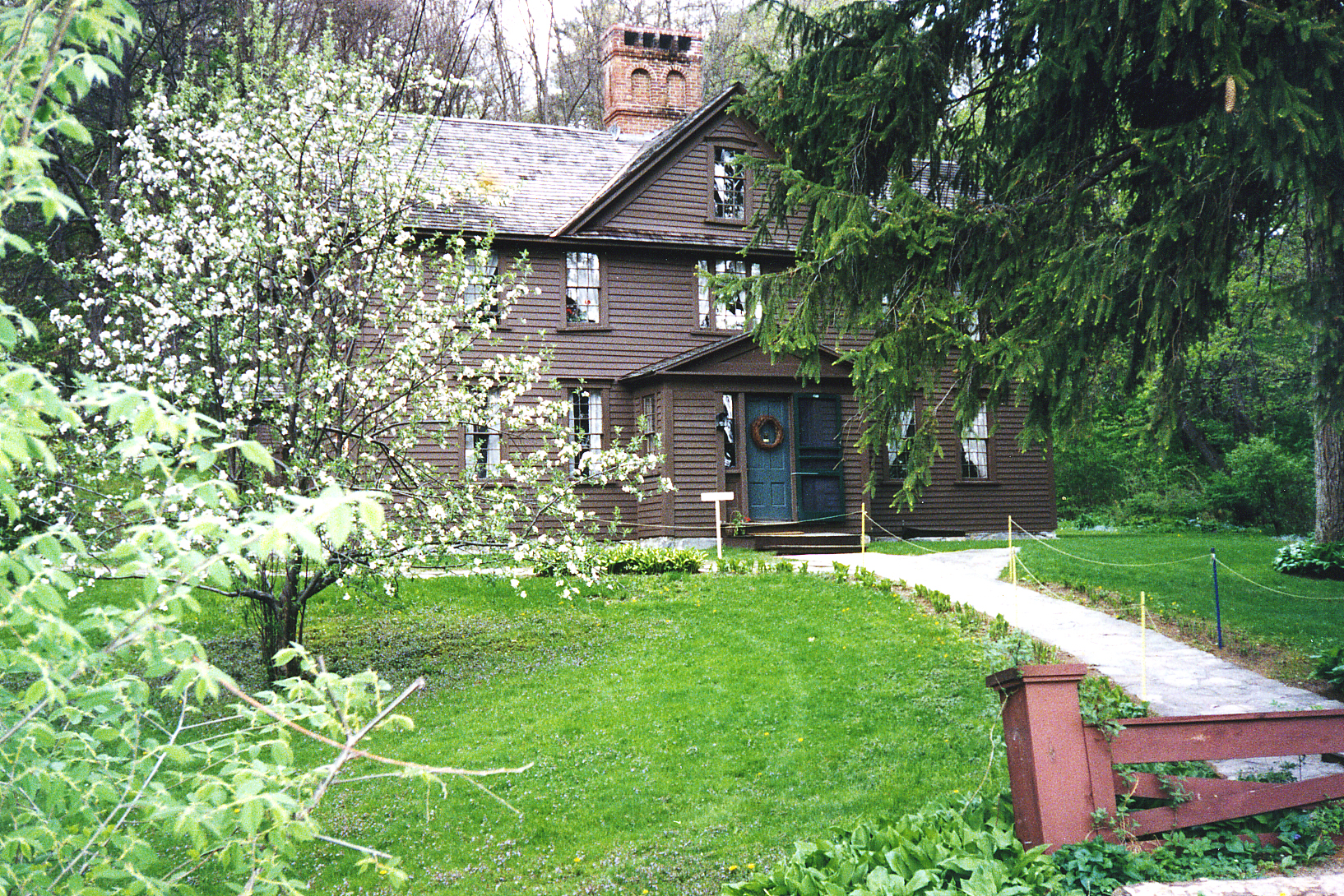 Concord, Massachusetts, USA. Contrary to the title on Flickr, this is a photo of Orchard House, home of Amos Bronson Alcott and family, including his daughter Louisa May.